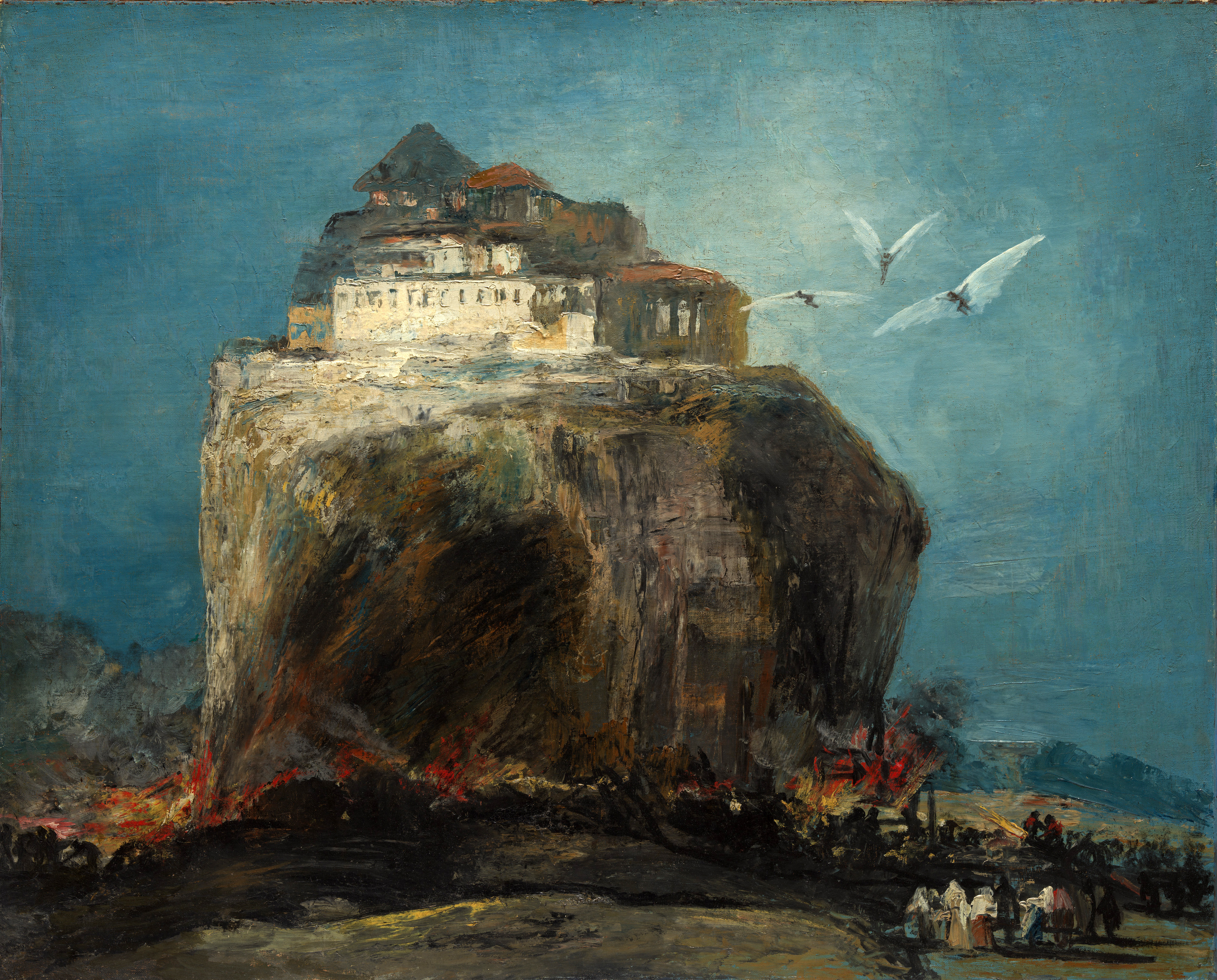 Notes on authorship from the Metropolitan Museum of Art[1]: When "A City on a Rock" was purchased in Spain in the mid-1880s by an American collector, it was attributed to Francisco de Goya (1746–1828). The painting is now thought to be by one of Goya's followers, Eugenio Lucas, and may have been painted as late as 1850–75. Lucas studied Goya's techniques and managed to execute a painting sufficiently close to Goya's style to deceive most authorities until about 1970. Many of the compositional elements have been taken from autograph works by Goya (both paintings and prints), and it appears, therefore, to be a pastiche. See also:ART REVIEW; World of Goya and Those Who Would Be Goya.